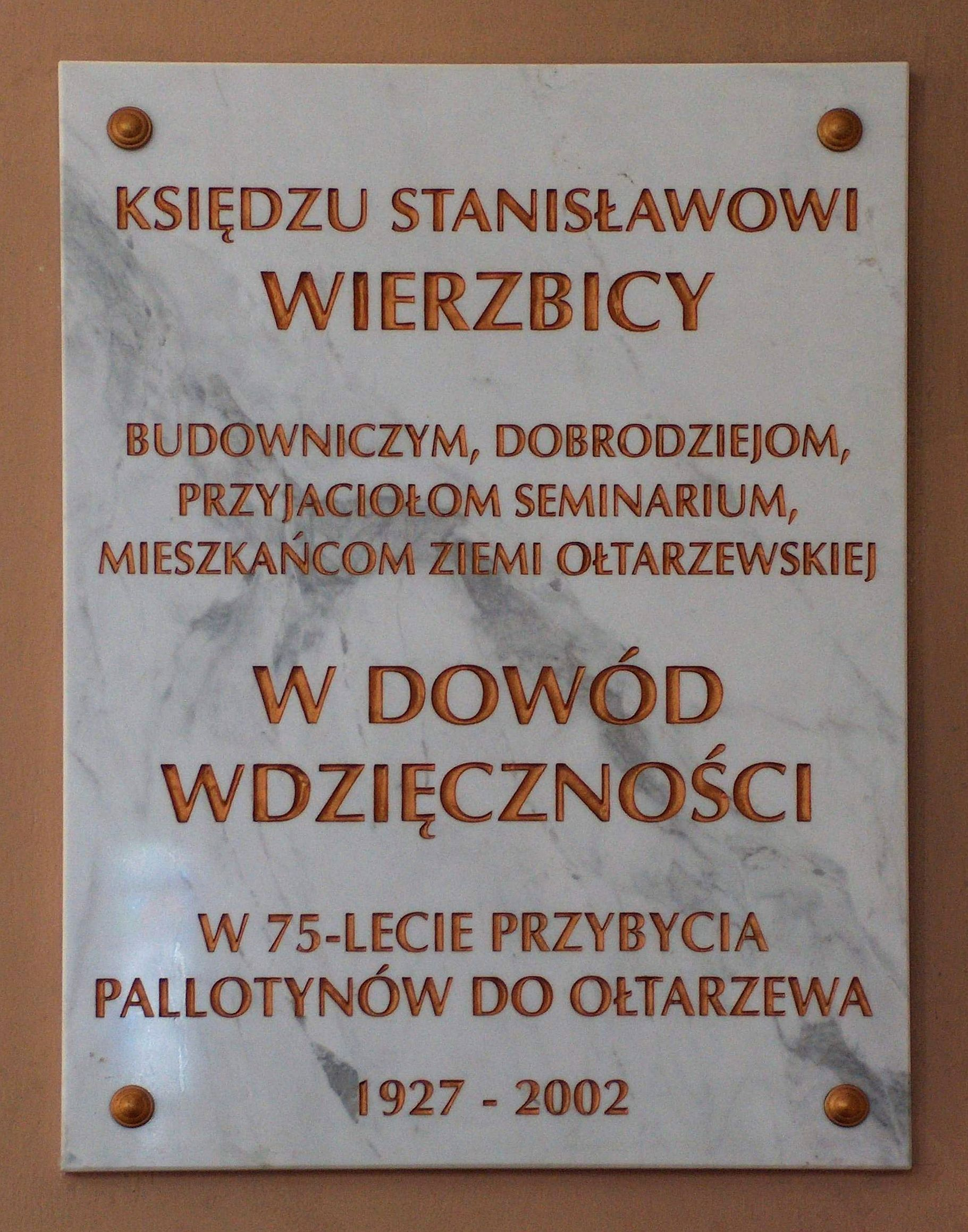 Tablet dedicated to father Stanisław Wierzbica SAC in Ołtarzew, Poland